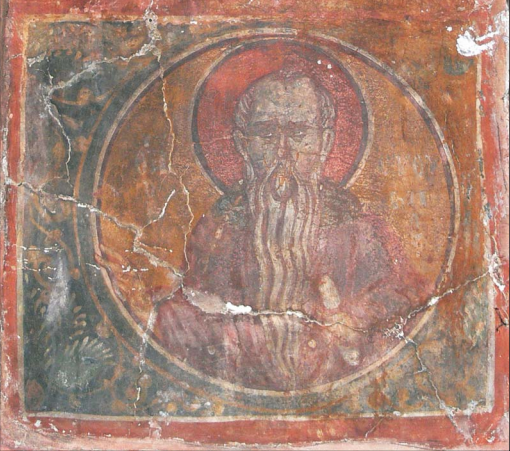 WALL PAINTINGS FROM THE LATE 15TH CENTURY IN THE MONASTERY CHURCH OF ST. PARASKEVE — BRAJČINO, Macedonia